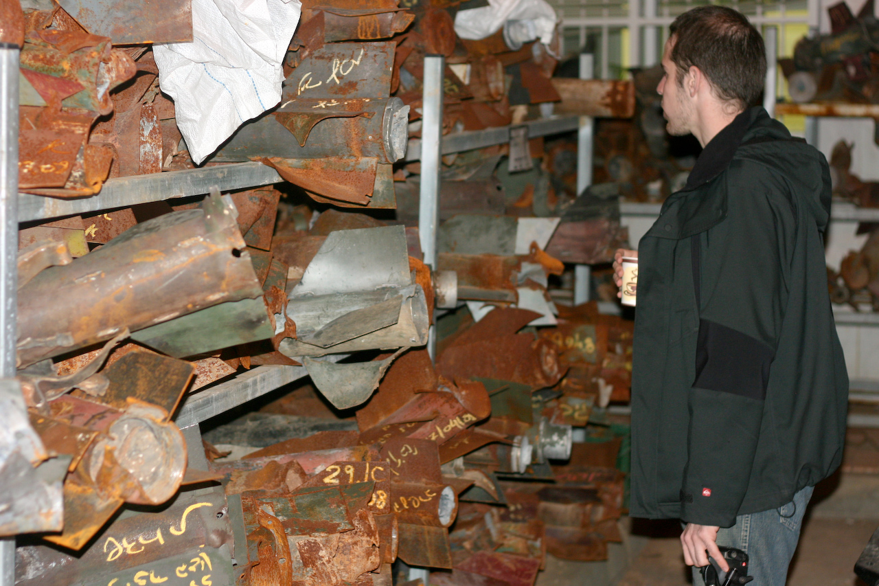 Collection of Qassam rockets left overs.